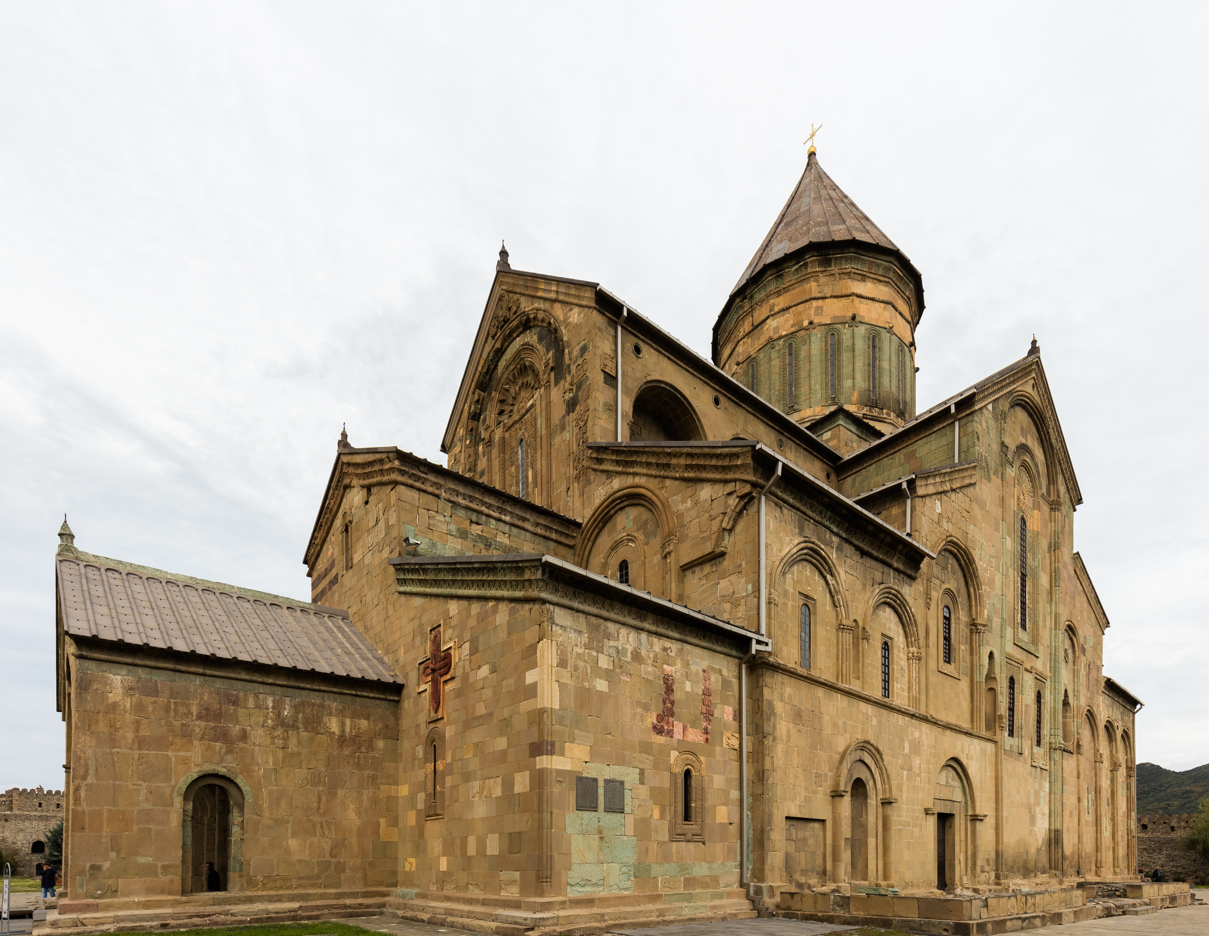 Svetitskhoveli Cathedral, Mtskheta, Georgia